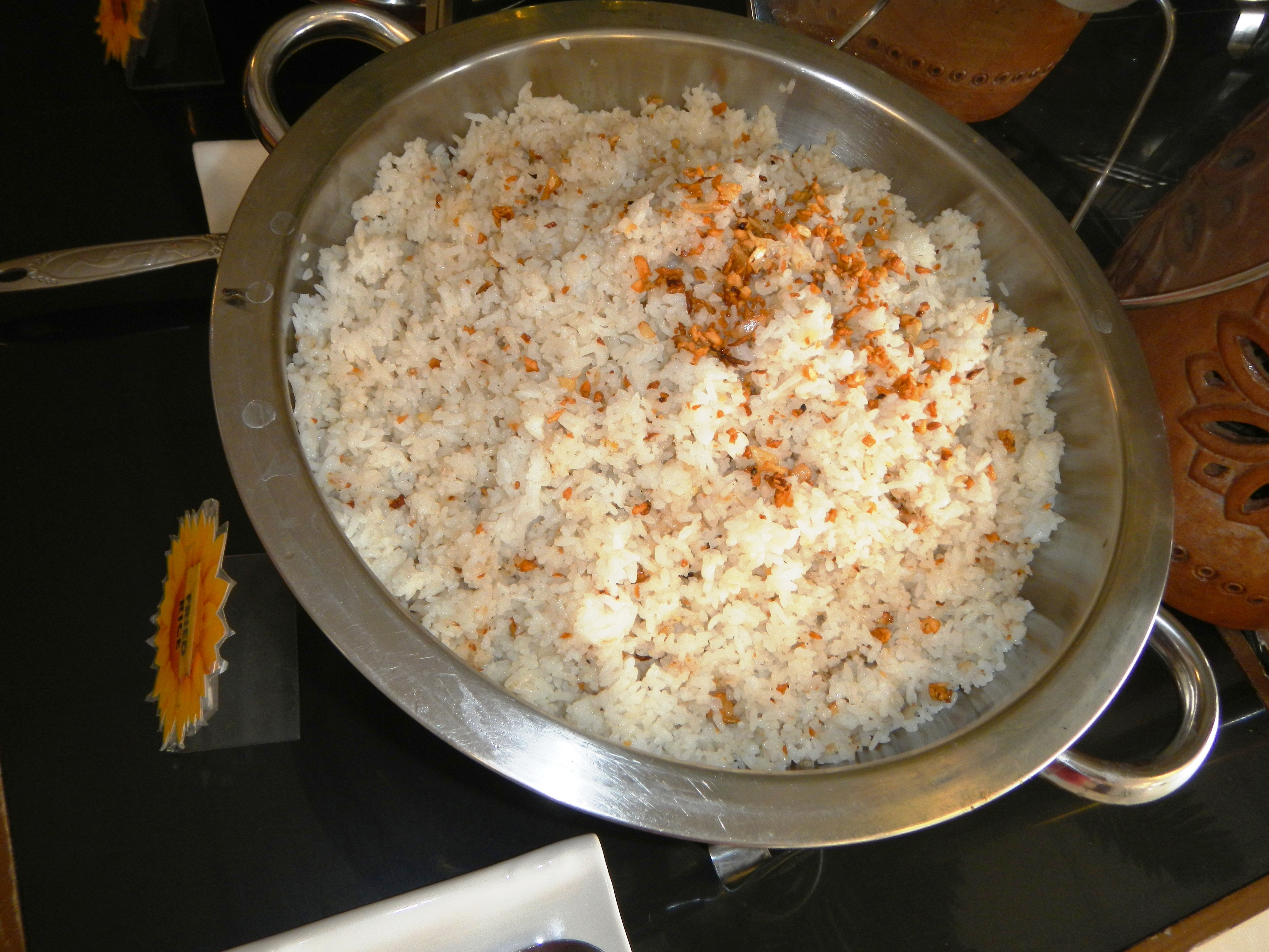 Buffets in the Philippines All-you-can-eat (AYCE) Buffet Catering in Bulacan, Philippines (Barangay Bagong Nayon, Baliuag, Bulacan restaurant, along Cagayan Valley Road in Pan-Philippine Highway).